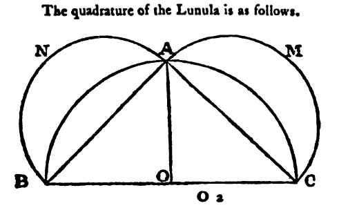 Hippocrates of Chios' quadrature of lunula